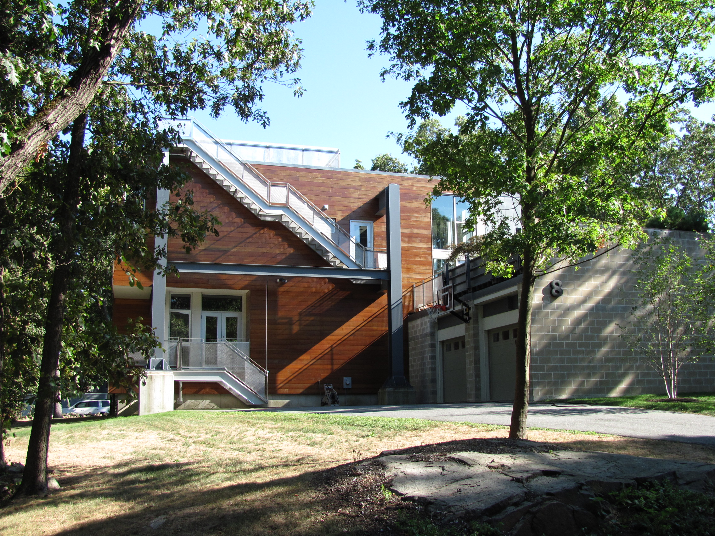 The Big Dig House, East Lexington Massachusetts - in the Six Moon Hill neighborhood